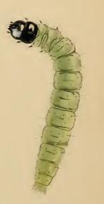 Stainton’s Natural History of the Tineina (1855–1873): Mirificarma maculatella